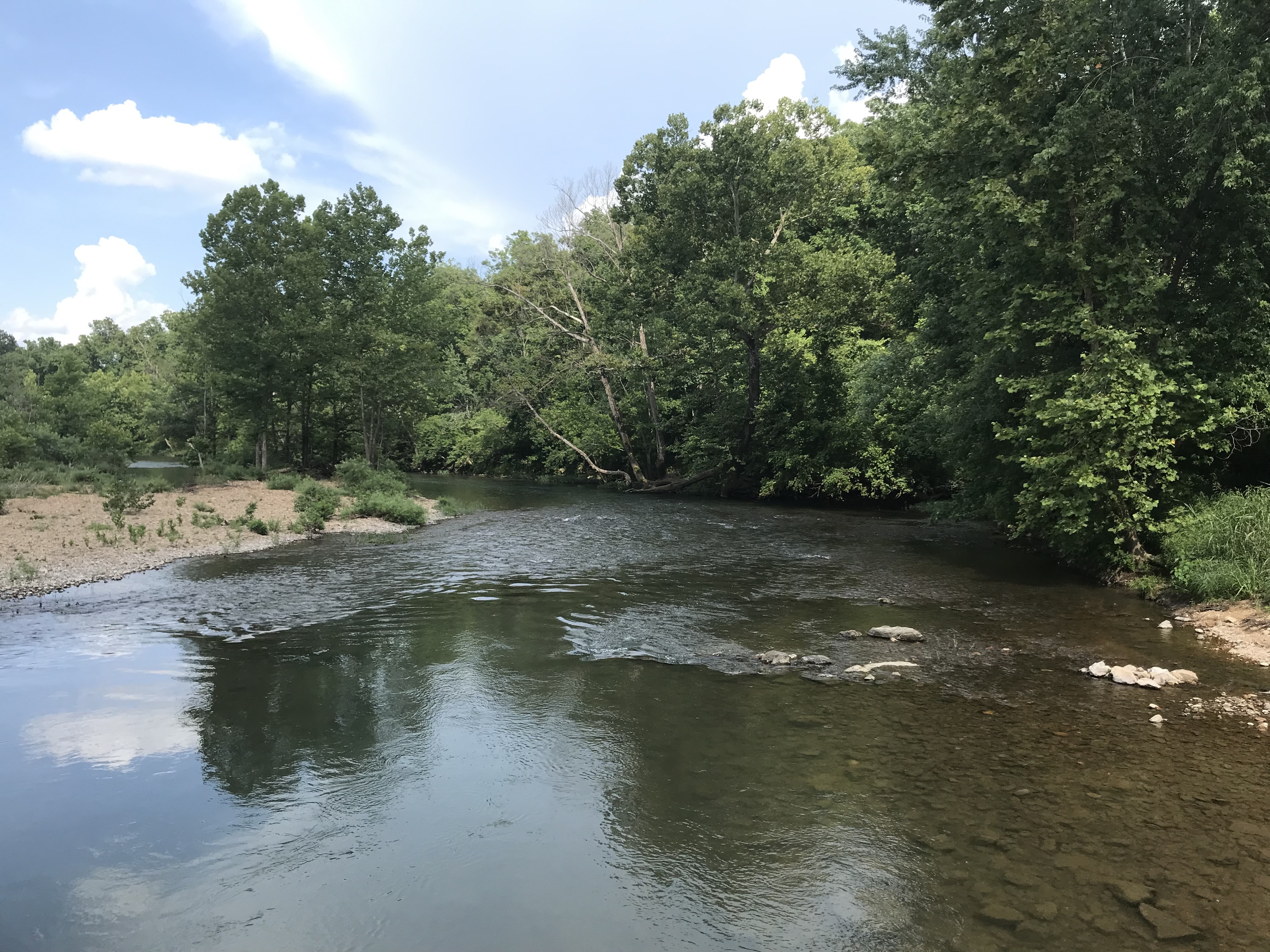 View of the South Fork of the Spring River as it flows through Kia Kima Scout Reservation in Hardy, Arkansas, July 9, 2019.